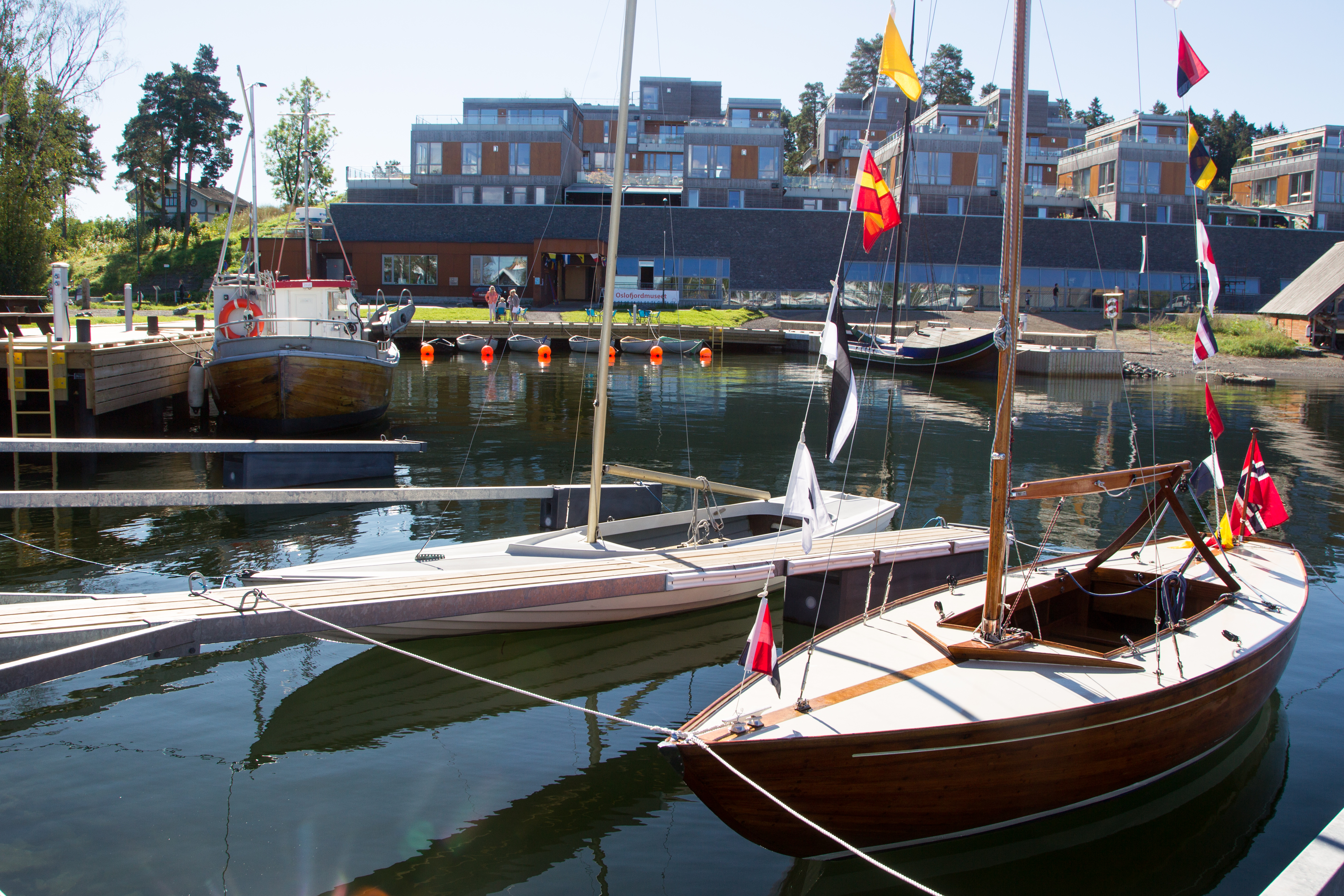 Oslofjordmuseet i Vollen i Asker tar for seg de sidene ved kystkulturen i Indre Oslofjord som har med friluftslivet og bruken av fritidsbåter å gjøre. Museet åpnet i 2013.